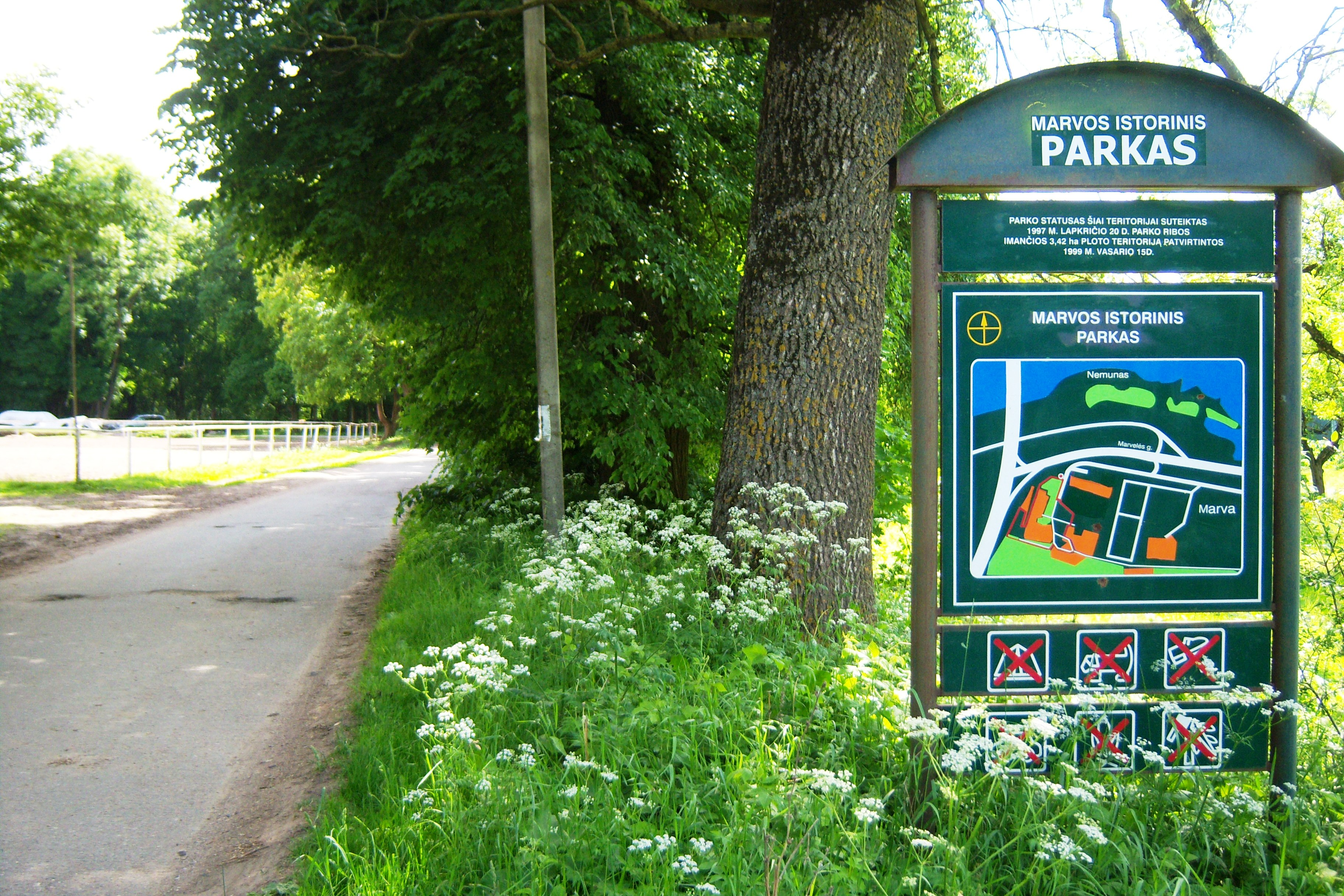 Road to the former manor in Marvelė, Kaunas. Lithuania